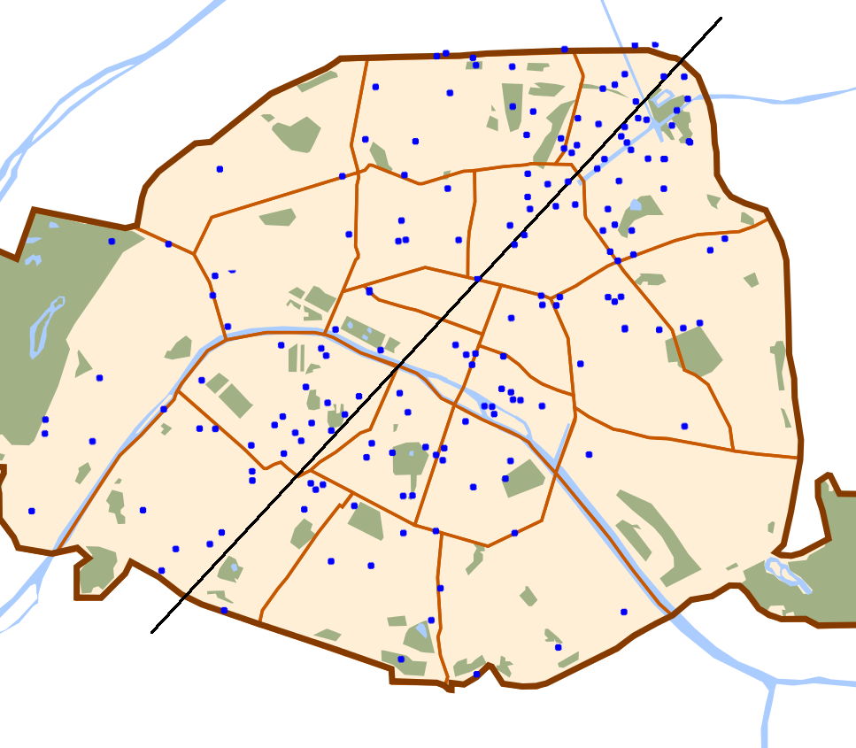 Map of Paris, showing where shells fired by the Paris Gun landed, June-August 1918. Based on, Henry W. Miller, Railway Artillery: A Report on the Characteristics, Scope of Utility, etc. of Railway Artillery, United States Government Printing Office (1921) pg 735